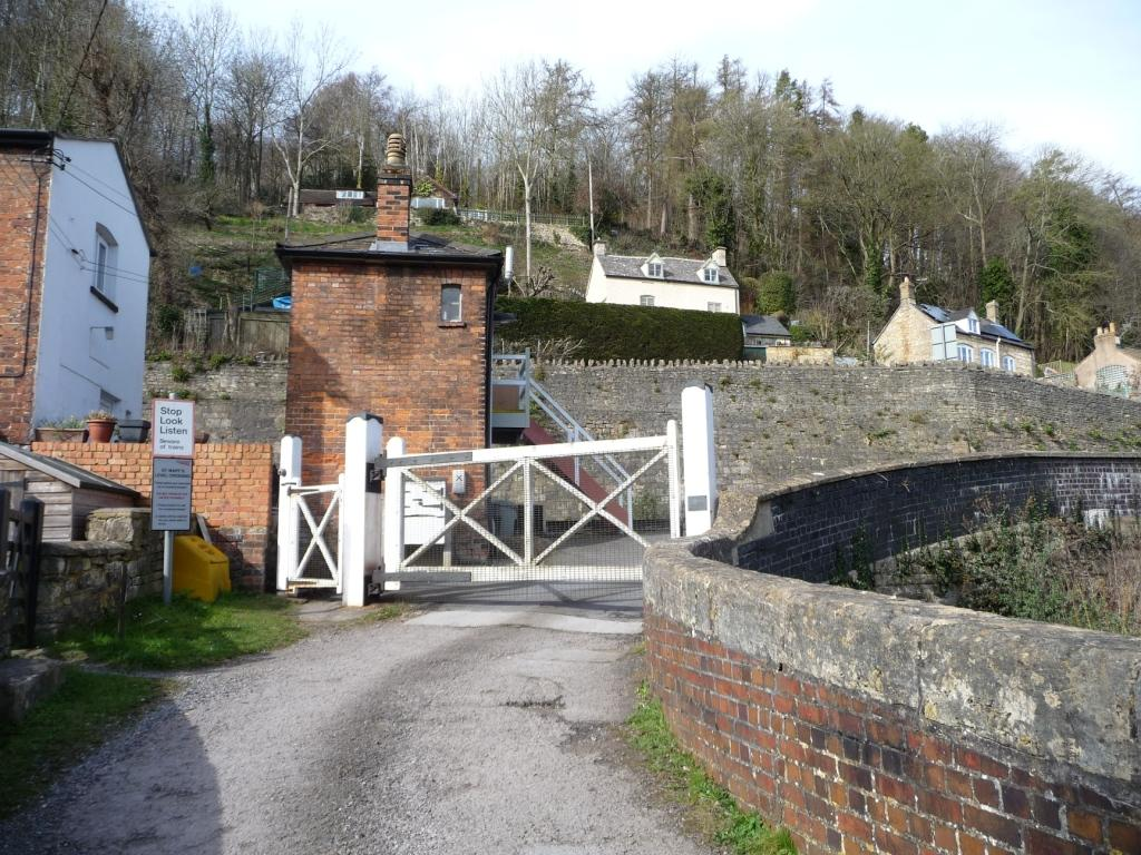 Brimscombe St Mary's level crossing, from the south